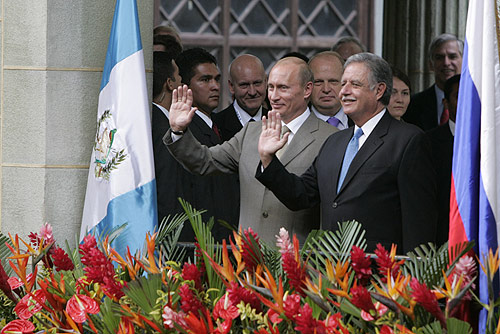 GUATEMALA. With the President of Guatemala, Oscar Berger.